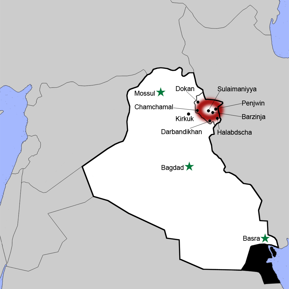 Governorat of Sulaimaniyya inside the Kingdom of Iraq and the Barzanji Revolt WHITE: Iraq with borders of the governorat of Sulaimaniyya (until 1958) according to Lothar Rathmann: Geschichte der Araber, Vol. 5, p. 46/47 (map 2, Ilse Richter), Akademie-Verlag, Berlin 1981 RED: Area of the Barzanji revolt of 1919 (1918-1920) according to Lothar Rathmann: Geschichte der Araber, Vol. 3, p. 160 (map 3). Akademie-Verlag, Berlin 1974